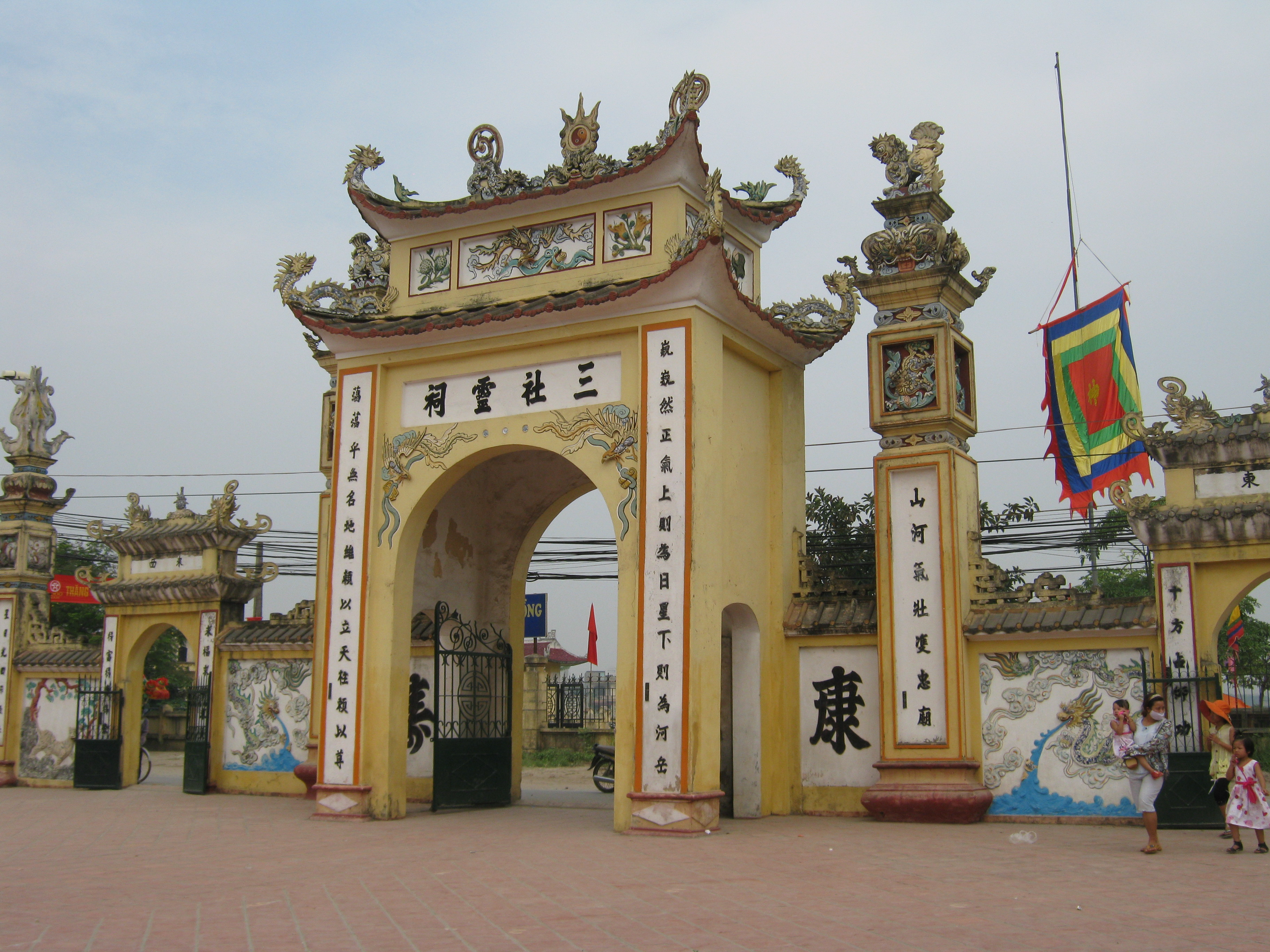 Đình Ba Dân community house gate, Hanoi